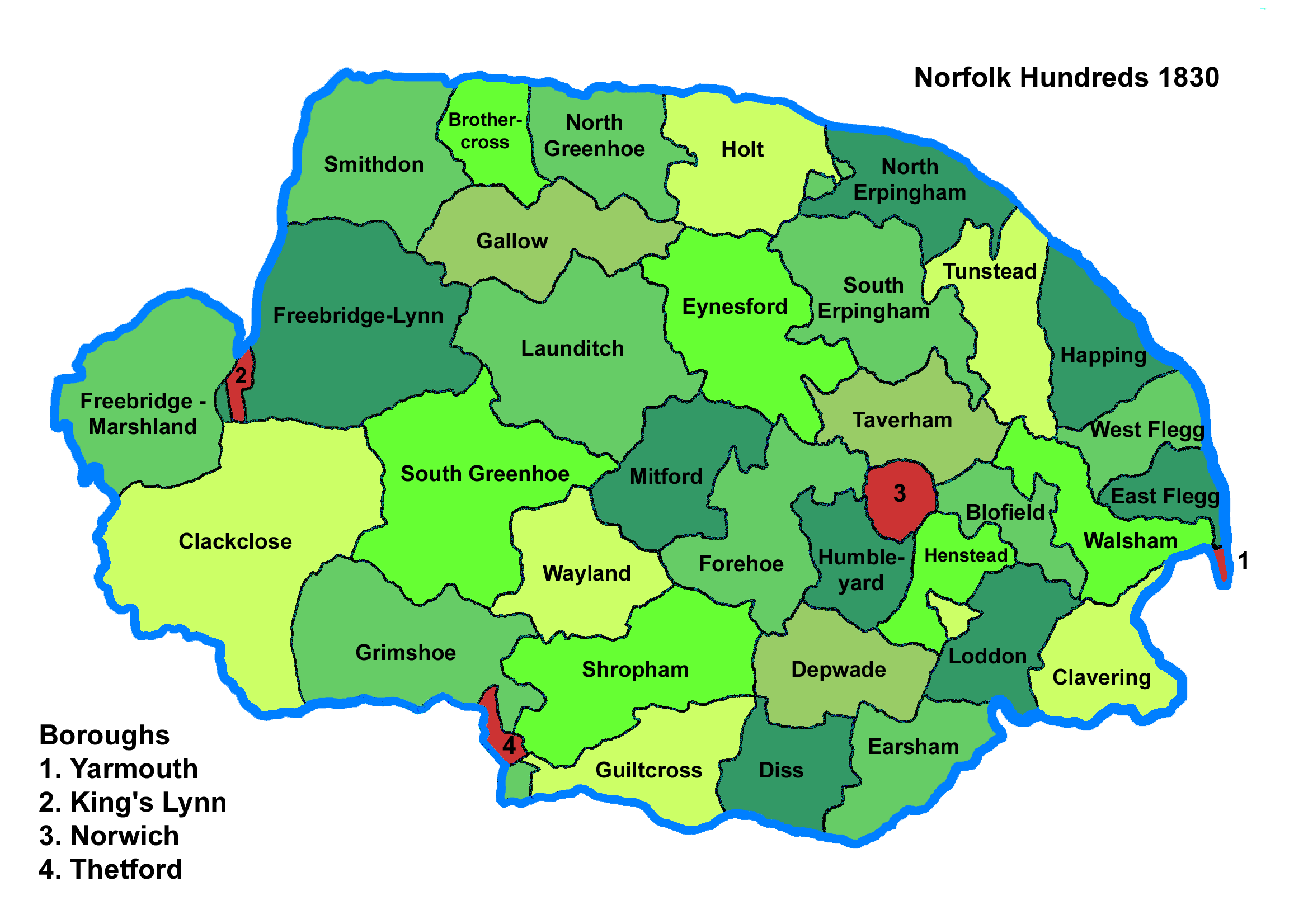 Map of the hundreds of Norfolk, as of 1830.